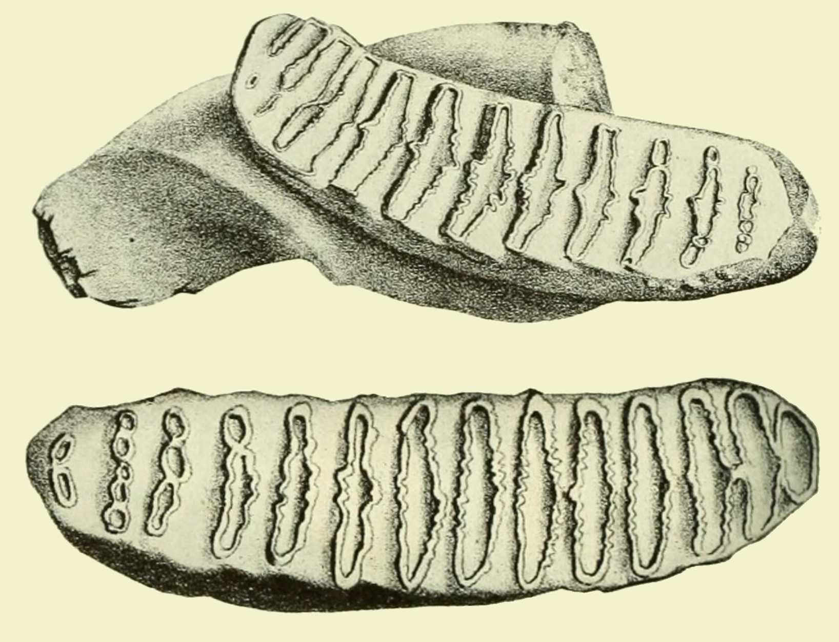 Loxodonta atlantica, second lower and third upper molar, the cotypes of the species, reprinted by Osborn 1942 after Auguste Pomel 1895: Paleontologie Monographies, no. 6. Les elephants Quaternaires." Carte Géol. I'Algérie, plate 8, fig. 1 and 3; Ternifine, Algeria; Pleistocene